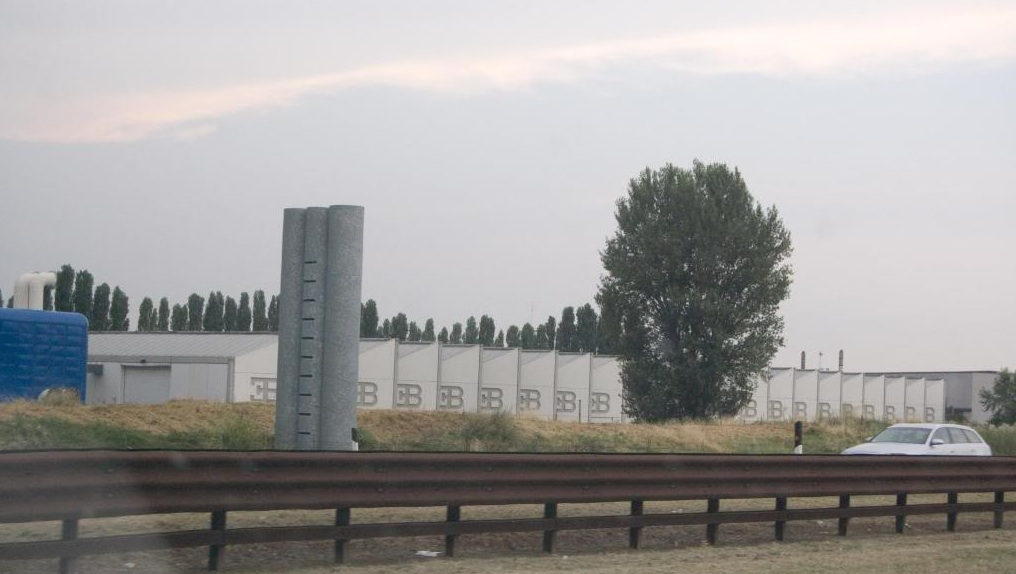 (Department of assembly (right side) and engine department (left side) of the factory Bugatti Campogalliano. On the side, not visible in the photo, are the test room, offices and center experience (R & D). The factory 1998 closed.)